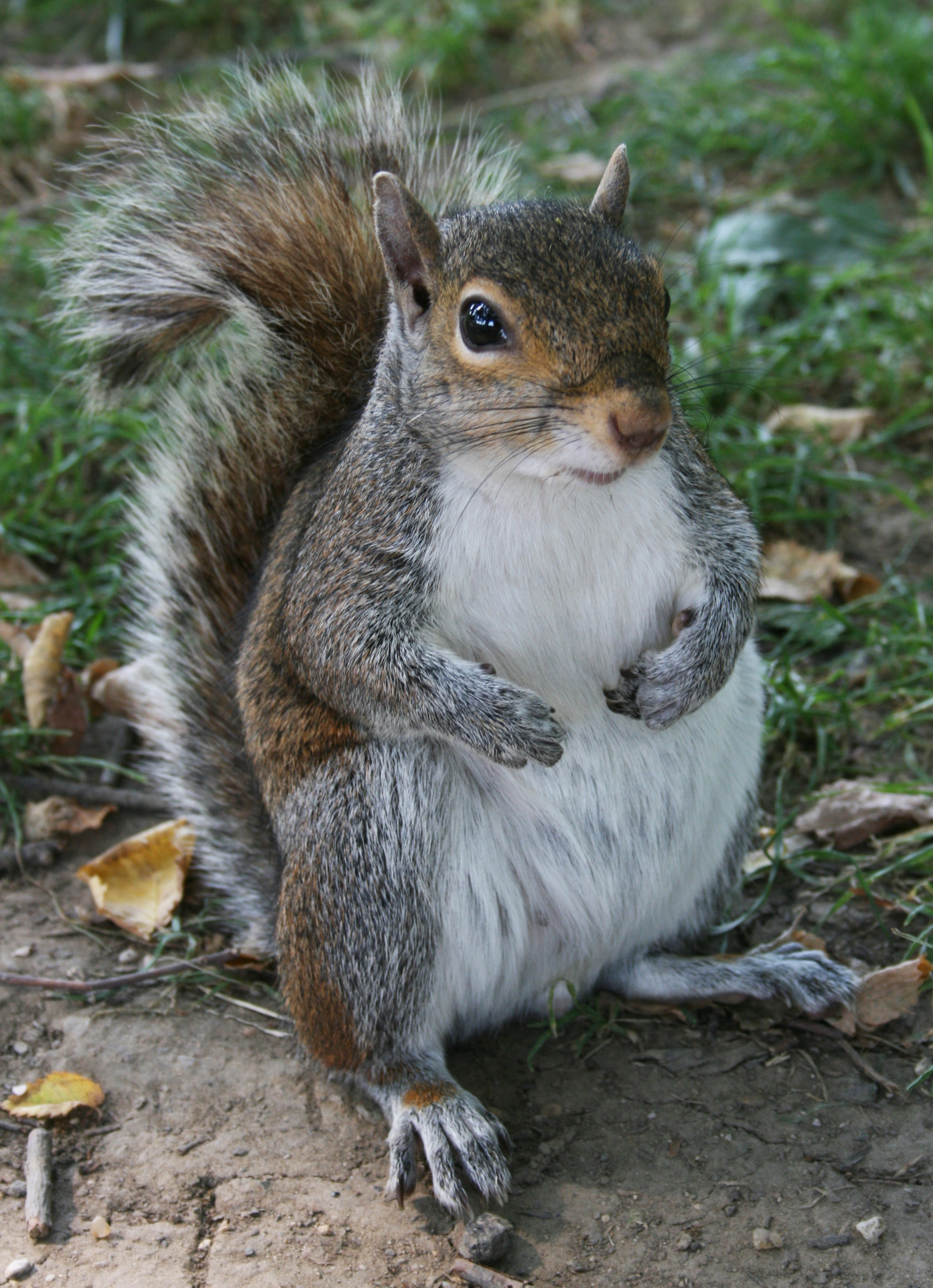 Common Squirrel found in the eastern United States. Photographed near Lincoln Memorial in Washington, DC.